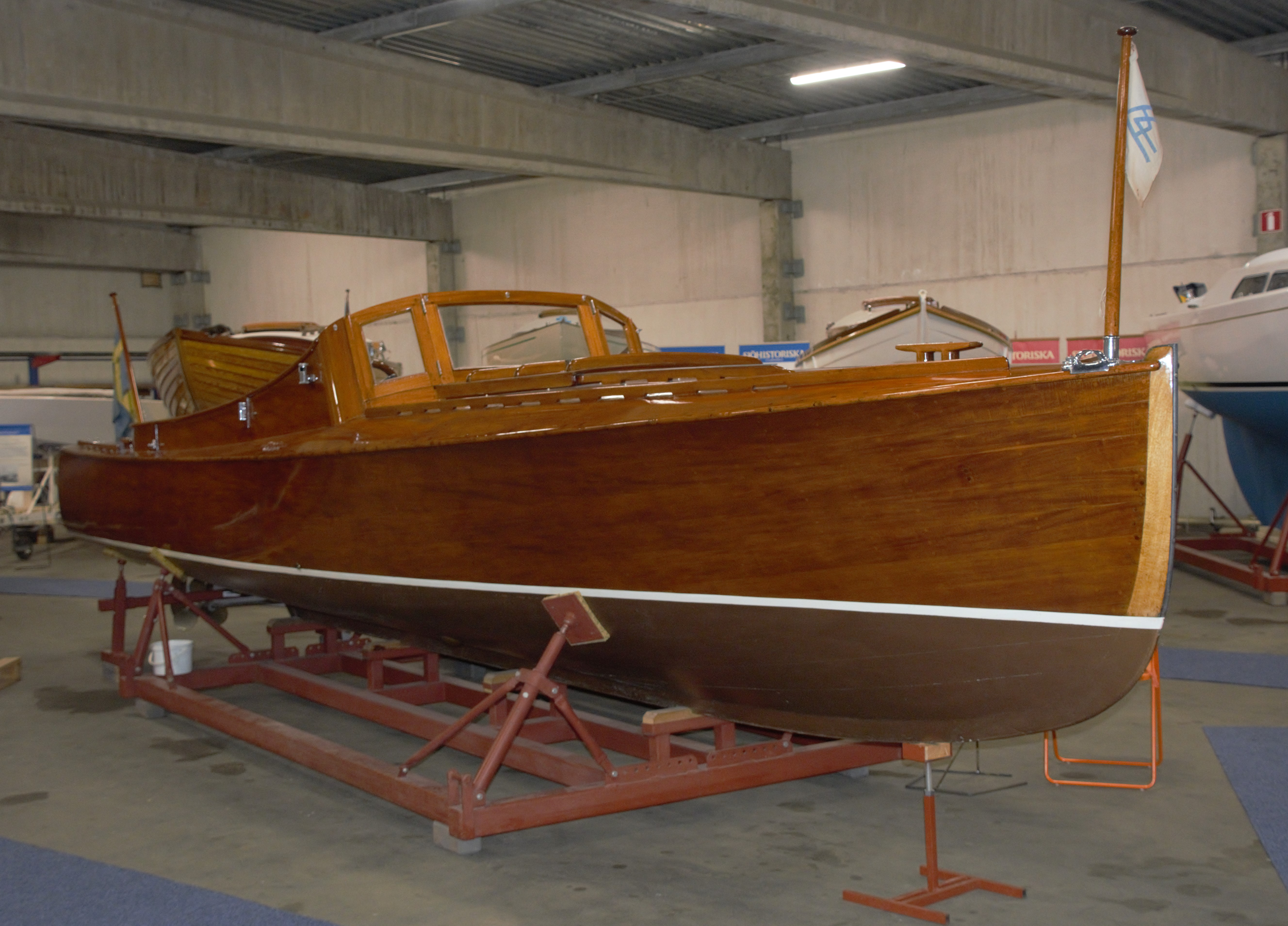 MY Aavor, built by Henning Forslund, Sjöexpress, Lidingö, Sweden. Boat designer: Henning Forslund, Constructing engineer: Carl Albert Fagerman. Sjöhistoriska museet, Rindö. Built 1928–1929 in mahogany with Sjöexpress number 408 for Hans Bruu. 9,70 meter long, 1,80 meter wide.